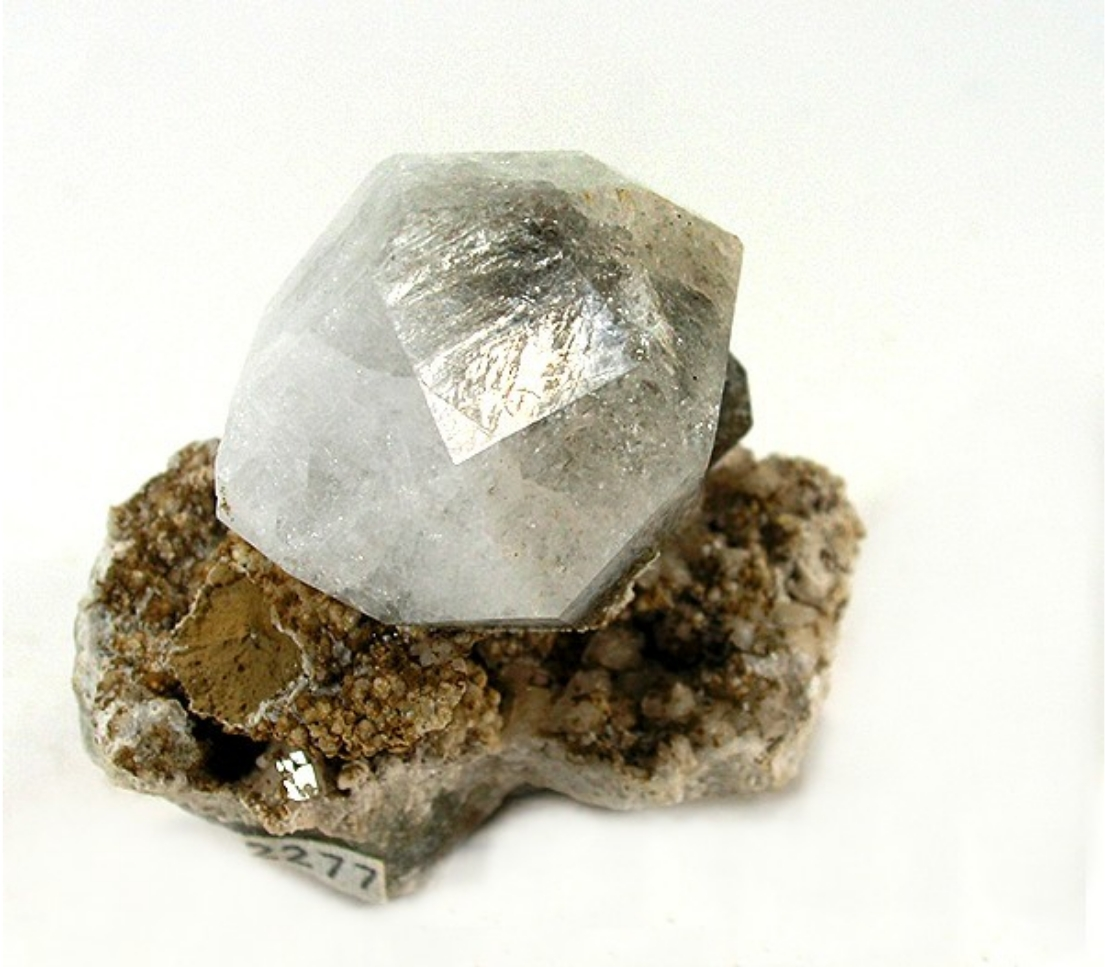 Analcime Locality: Thura, Tunguska River Basin, Siberia, Russia Size: miniature, 4.3 x 4.1 x 3 cm Analcime This is a superb display-quality miniature featuring a complete, lustrous, textbook-crystal of analcime perched dramatically on sparing matrix! The crystal is about 1 inch across, and is VERY 3-dimensional!